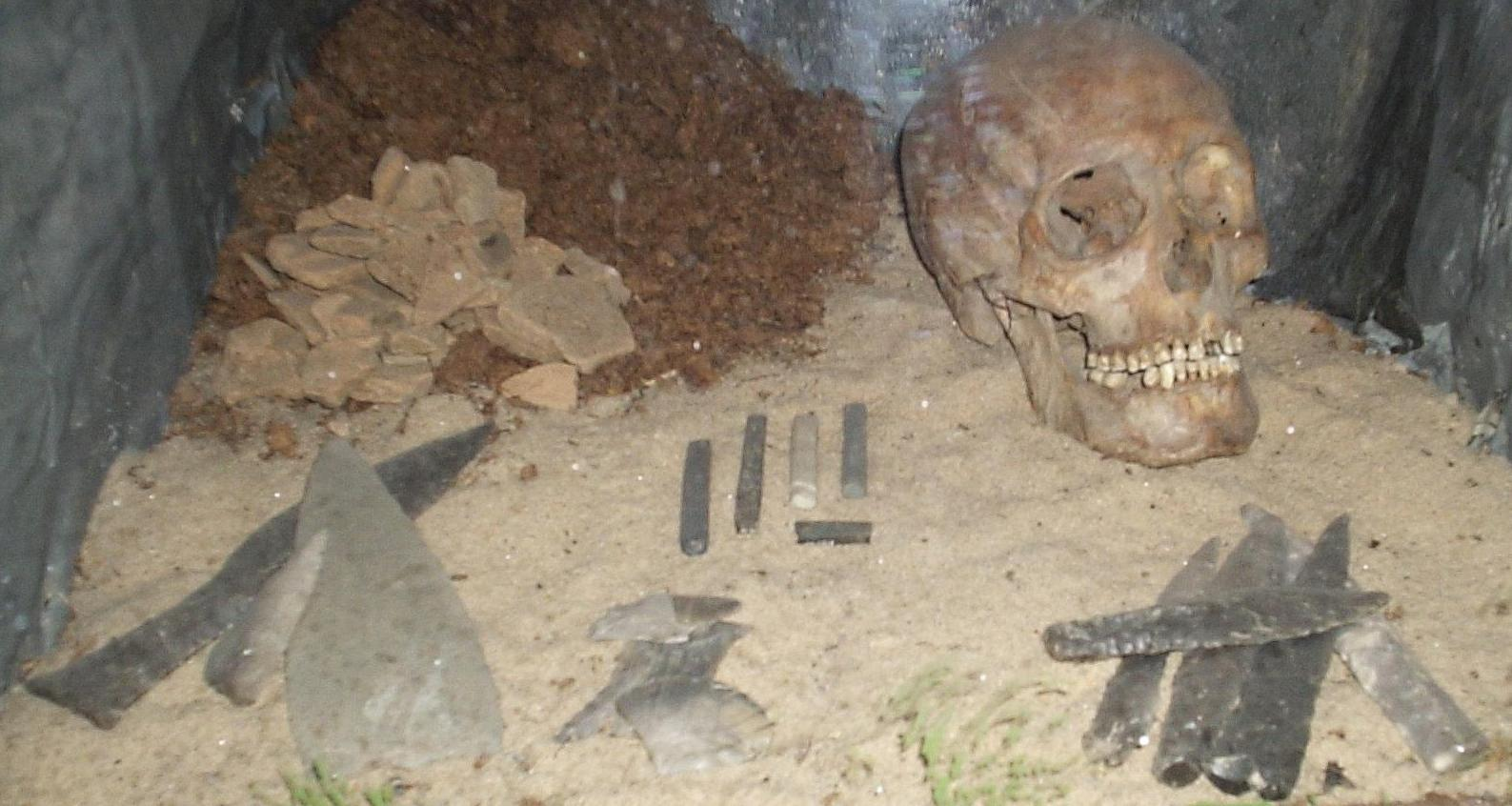 Photo by Harri Blomberg.